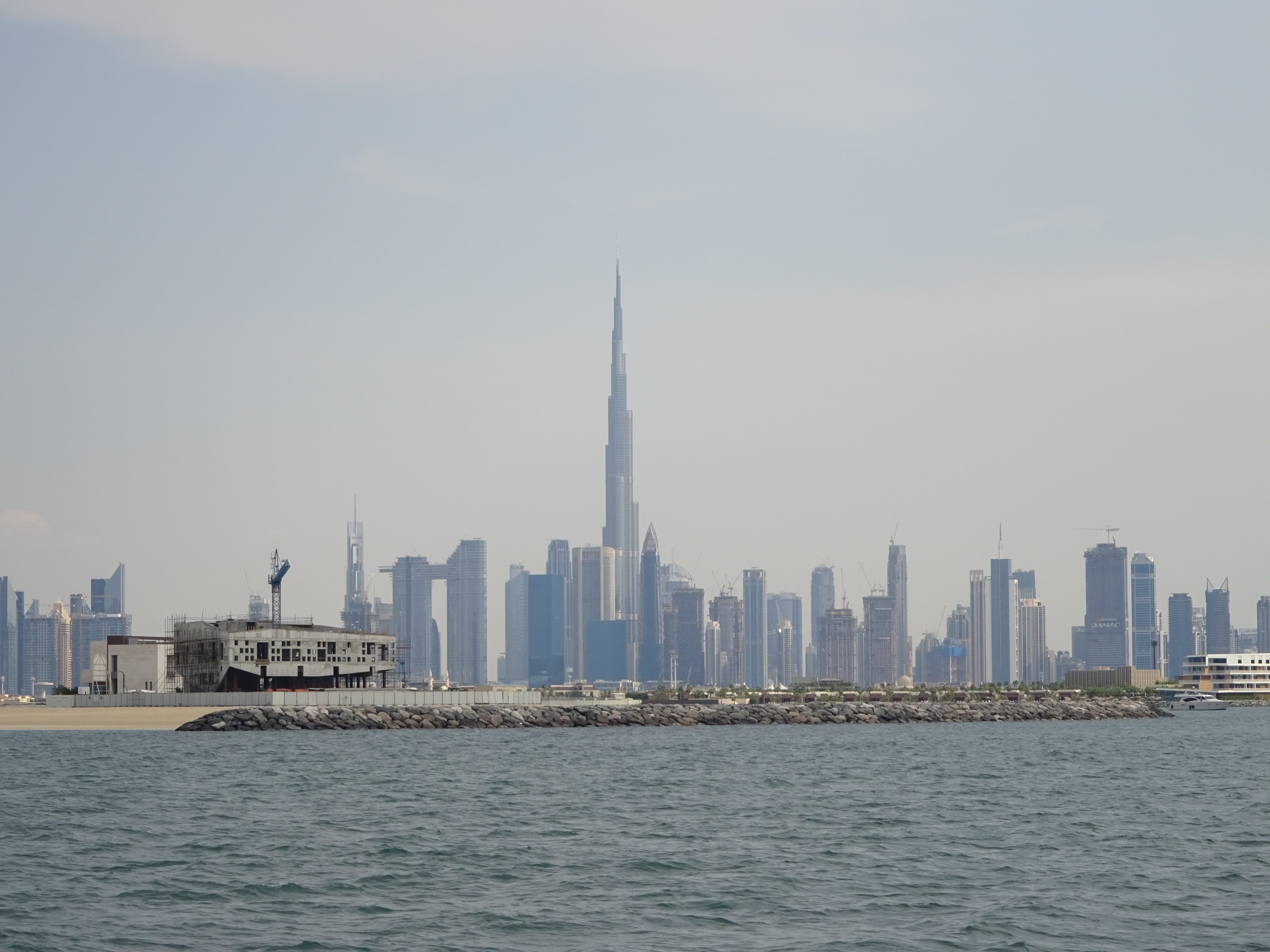 View of the Burj Khalifa from a ferry at sea, Dubai, UAE.